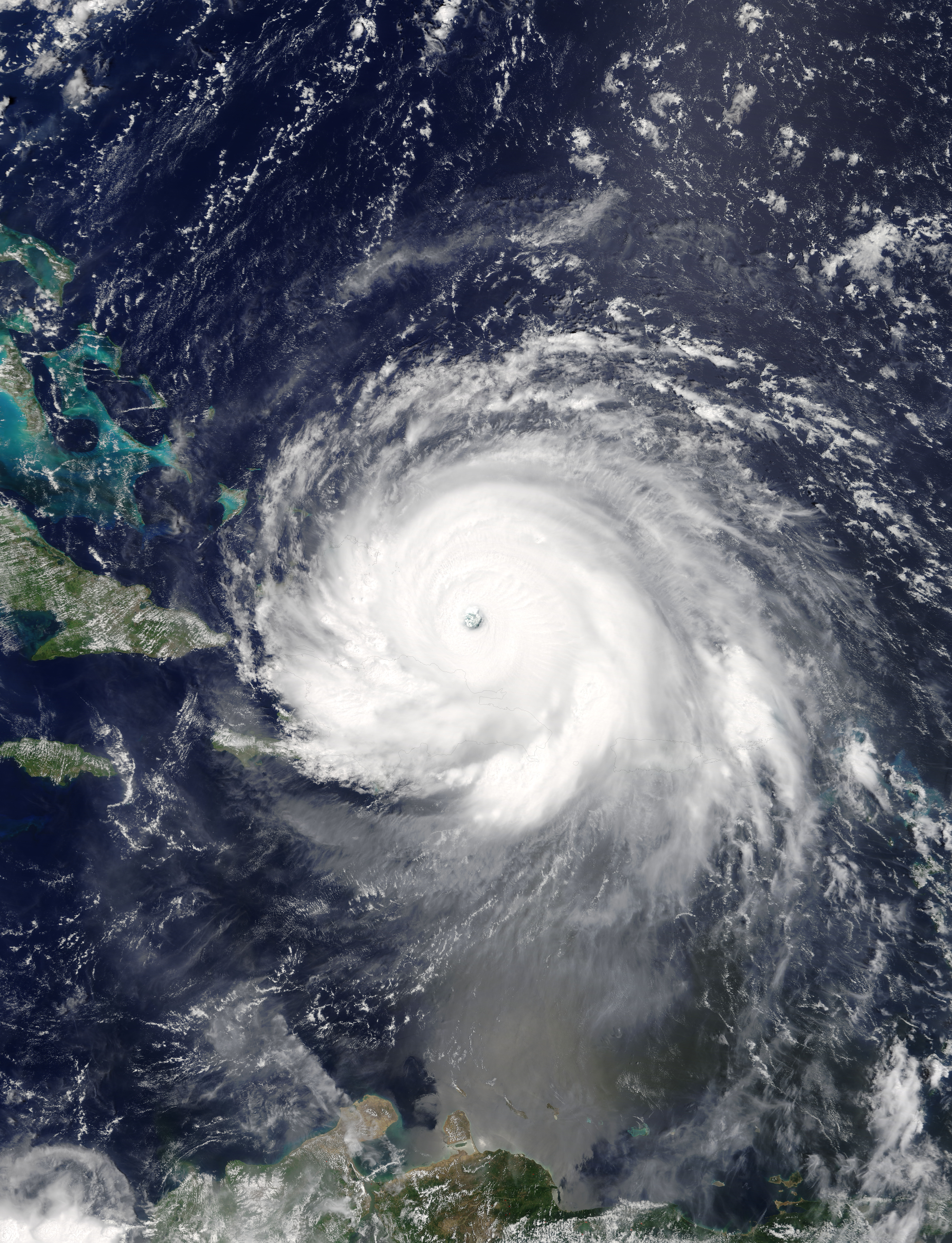 Hurricane Irma near the northern coast of Hispaniola (Haiti and Dominican Republic) on September 7, 2017, shortly after the long period of peak intensity. The island in the West of the cyclone is Cuba, with The Bahamas in the North.